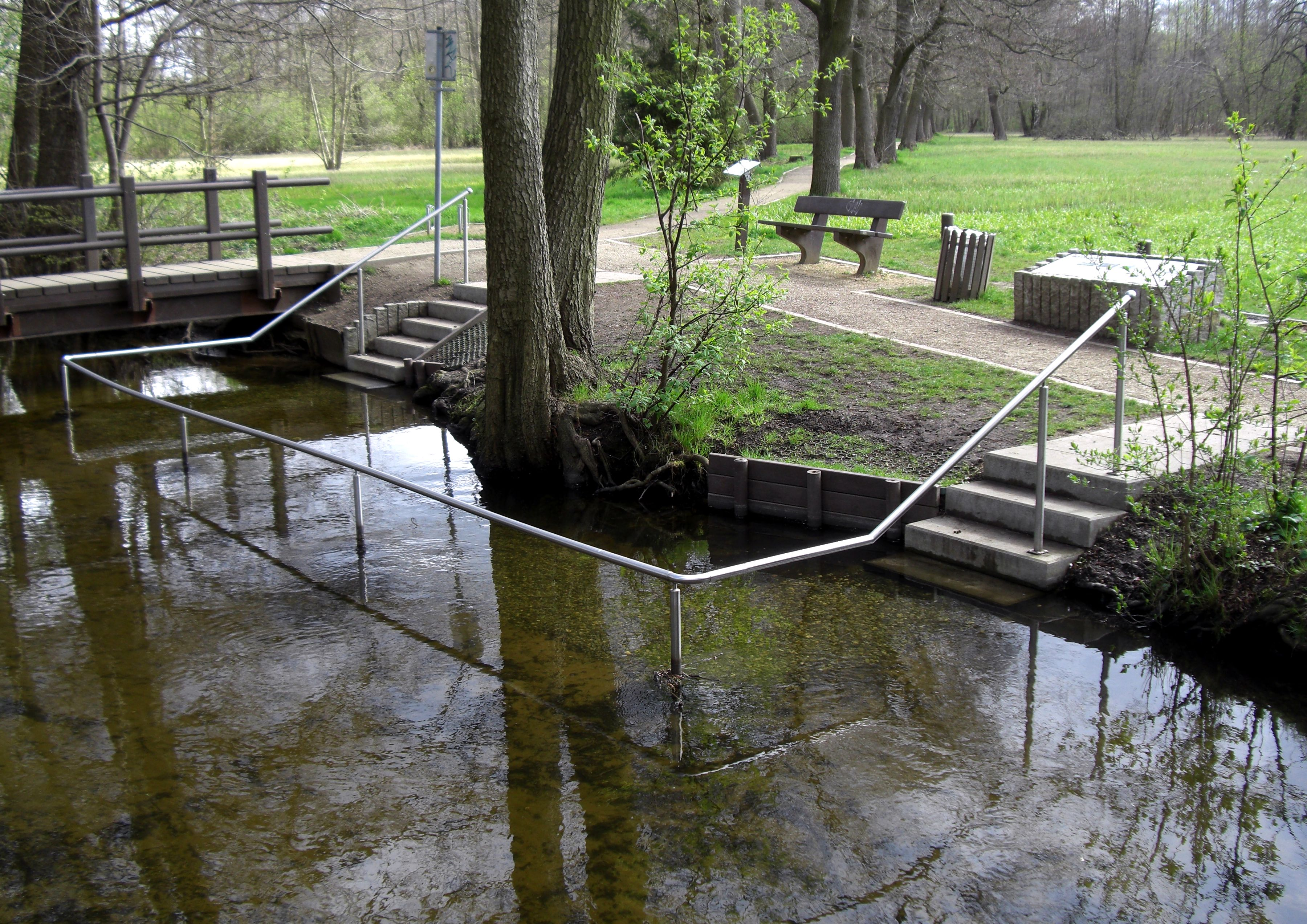 Kneippanlage